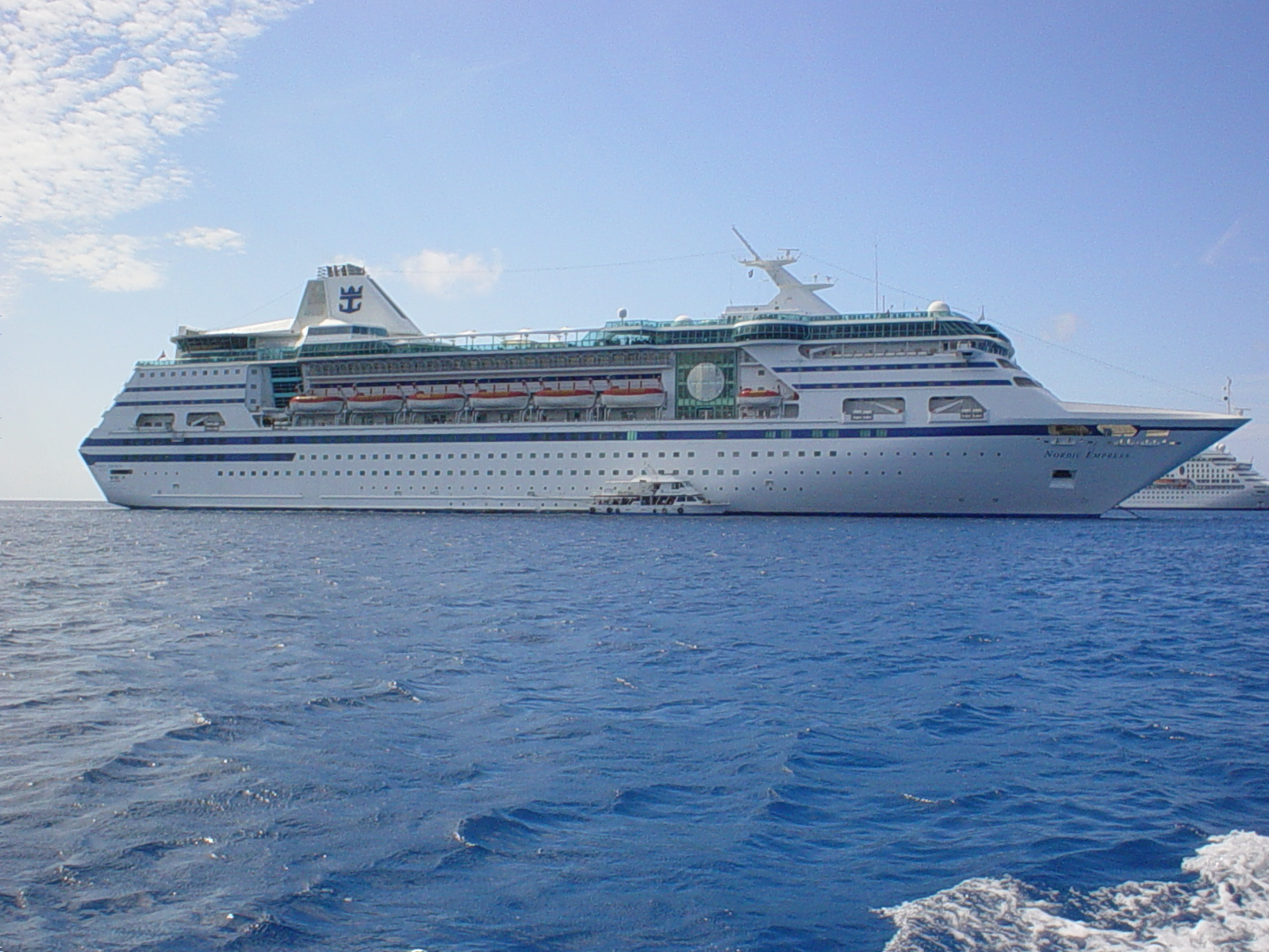 The Nordic Empress anchored off the Cayman Islands in late March 2004.It was refurbished and renamed Empress Of The Seas only a few weeks after the photo was taken. The ship in the background is the Norwegian Wind. Today, both of these ships have been moved to other cruise lines.